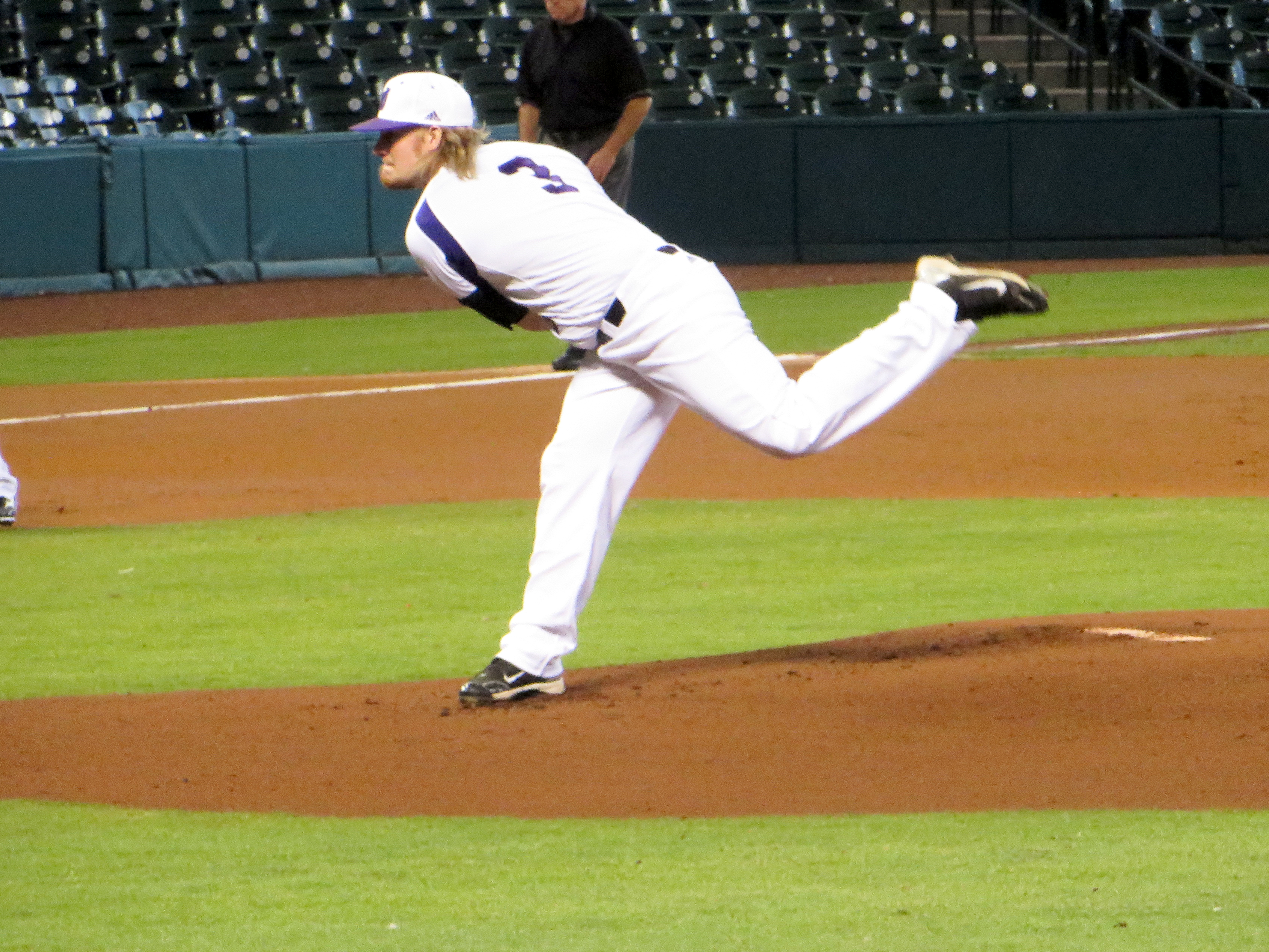 Winona State University baseball pitcher Mike Wasilik pitches during the 2014 Houston Winter Invitational at Minute Maid Park.